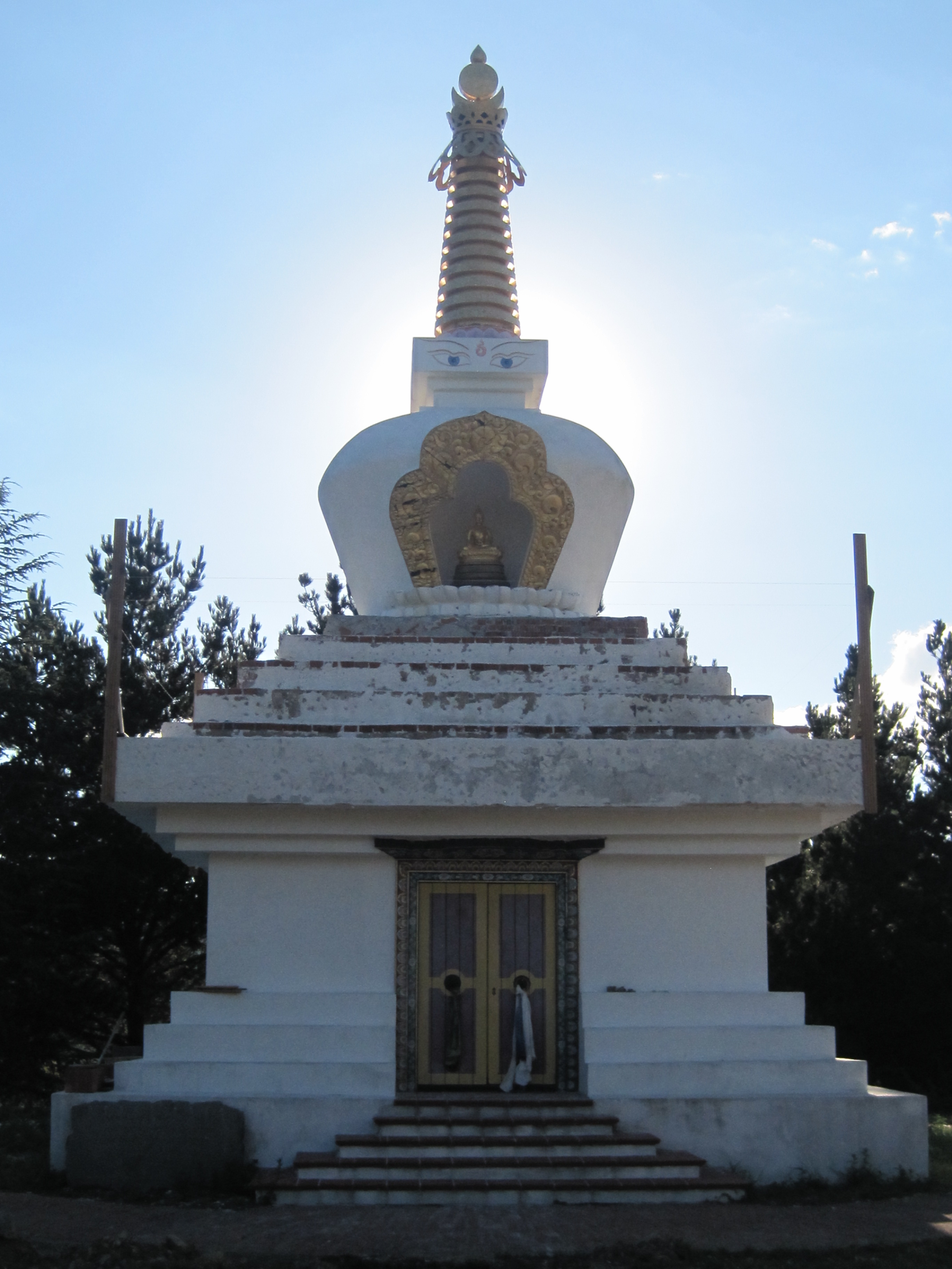 Stupa of Enlightement in Merigar West, Arcidosso (Grosseto)